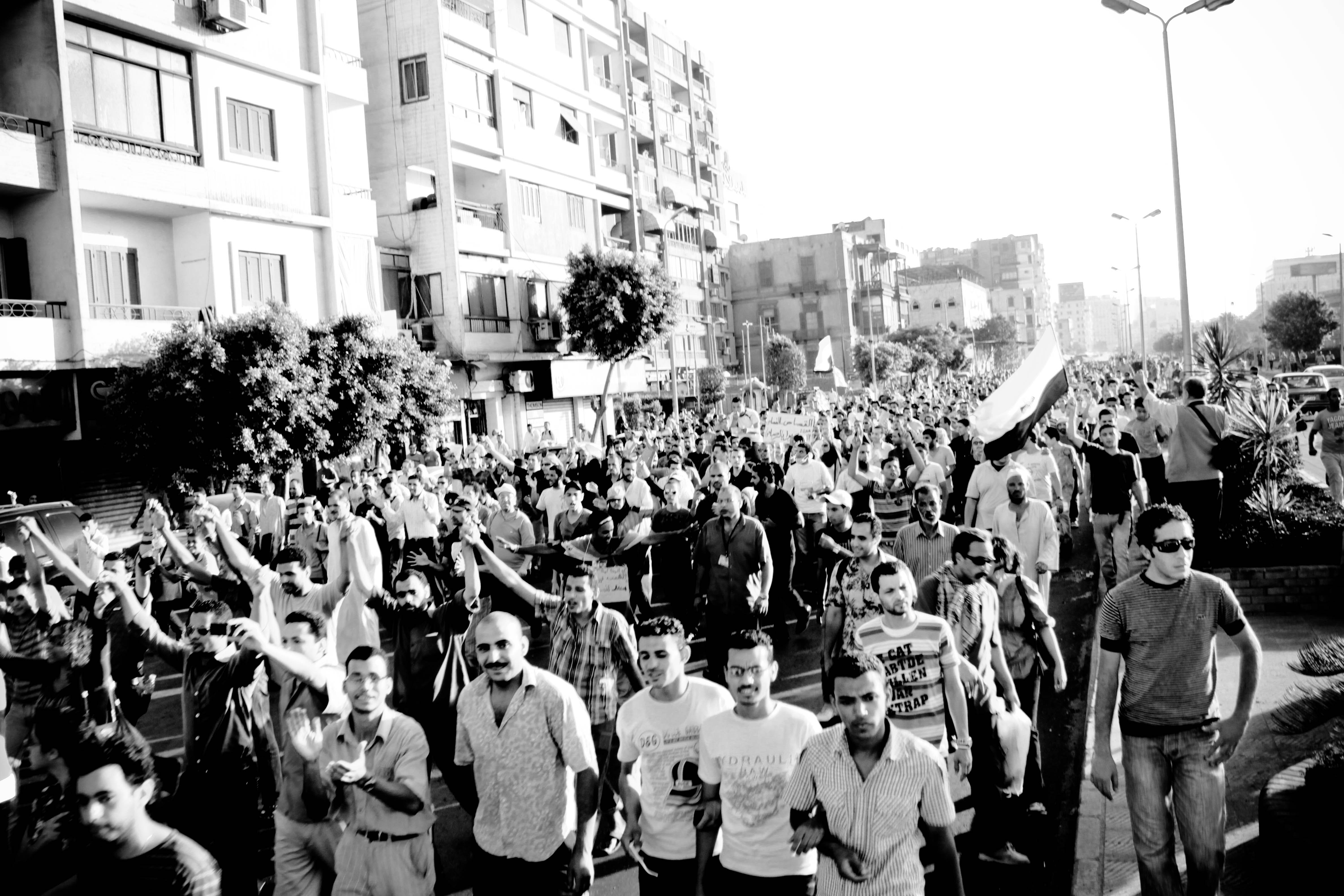 About more than 20,000 protesters joined an Anti-SCAF march. The march left Tahrir via Abdel Moneim Riyadh Square, and continued down Emtidad Ramses Street, into Ghamra till we reached Al-Noor mosque in Abbassiya. The military police and army have blocked the road by the Nour Mosque with vehicles and barbed wires. As soon as we reached, chants started against Tantawi and SCAF. After few minutes suddenly an attack started. Thugs carrying swords and knives flocked to the right, while others were throwing stones toward us from the side streets. The army kept firing their machine guns into the air. After few hours, tear gas bombs were thrown toward us and some cars were set on fire. We were trapped and couldn't find a way out. It was a war I have to say..